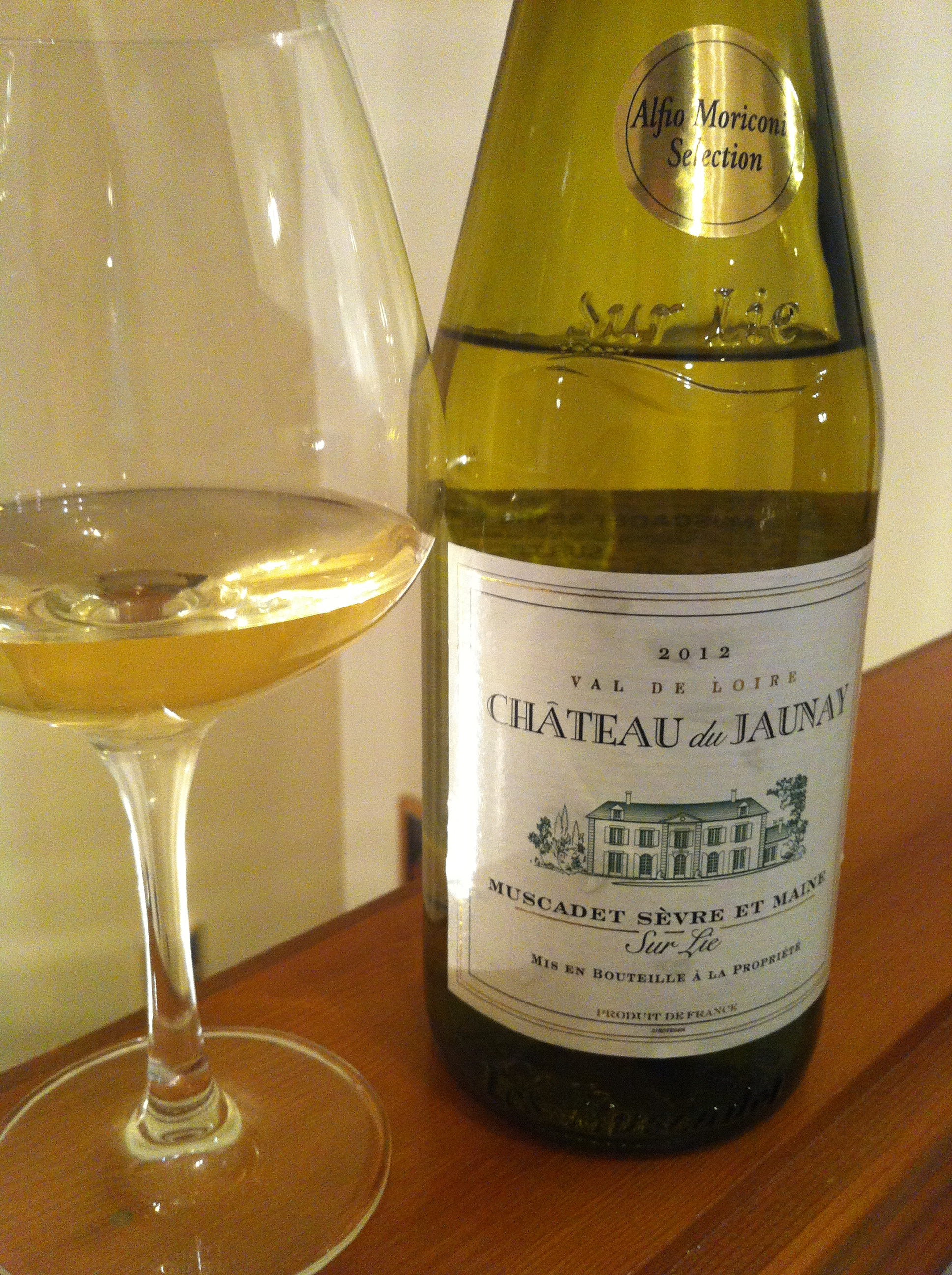 French melon Bourgogne made in the sur lie style in the Loire Valley wine region of Muscadet Sevre et Maine